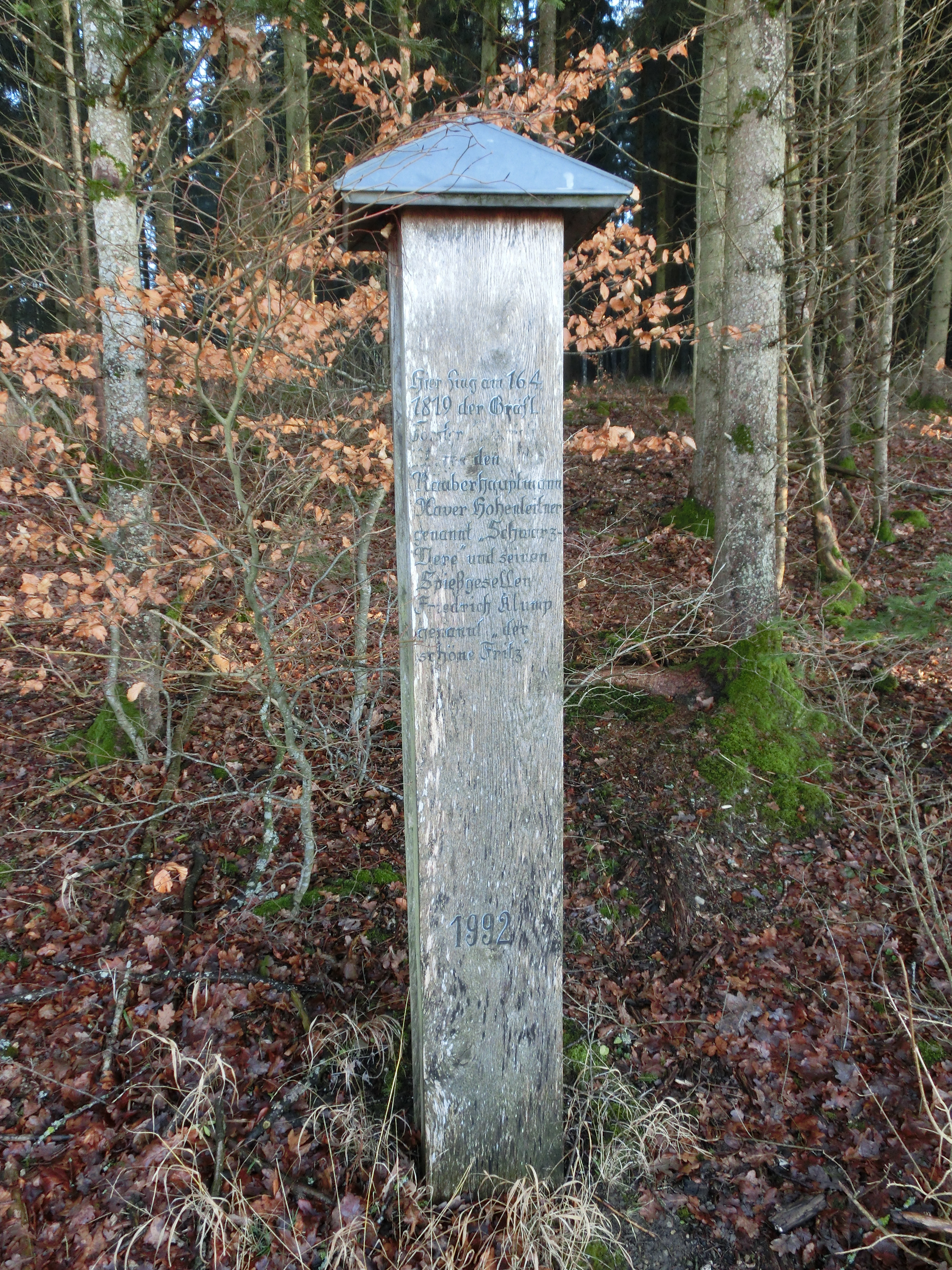 Germany (D) - Baden-Württemberg (BW) - district Sigmaringen (SIG) - Ostrach: commemorative pole near Laubbach at the place where Hohenleiter and his gang were arrested.